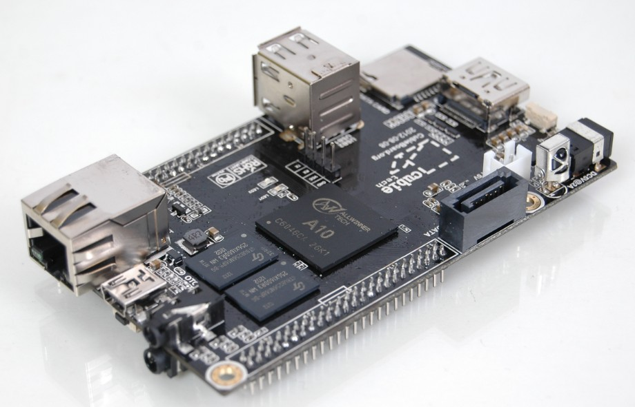 Photography of the Cubieboard first published revision (with 512MB memory).